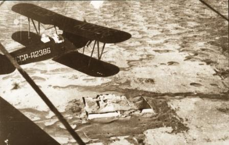 Biplane of the Chorasmian Expedition above the archaeological site of Adamli-kala